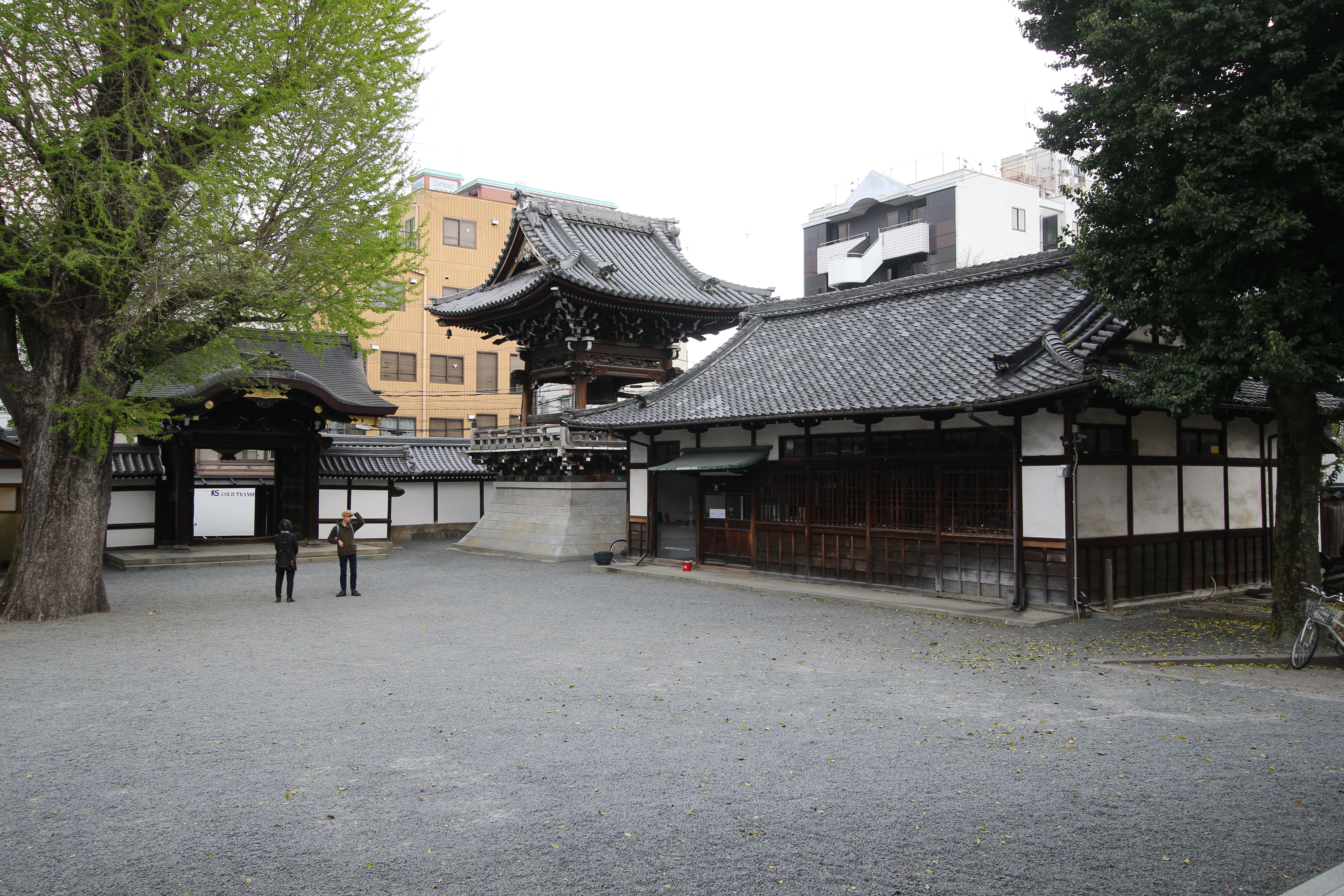 Bukkō-ji in Kyoto, Japan.